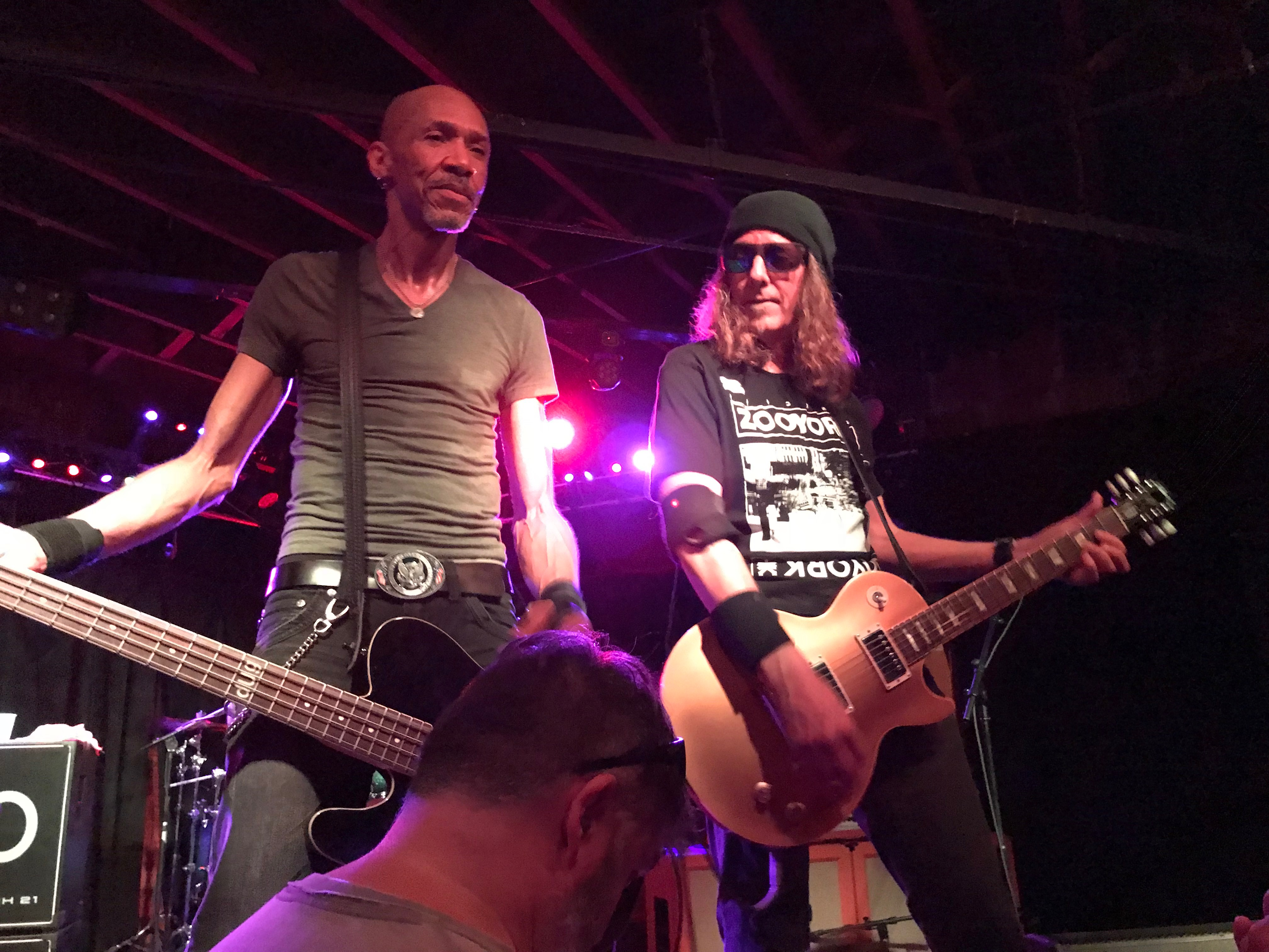 2 members of the rock group King's X.